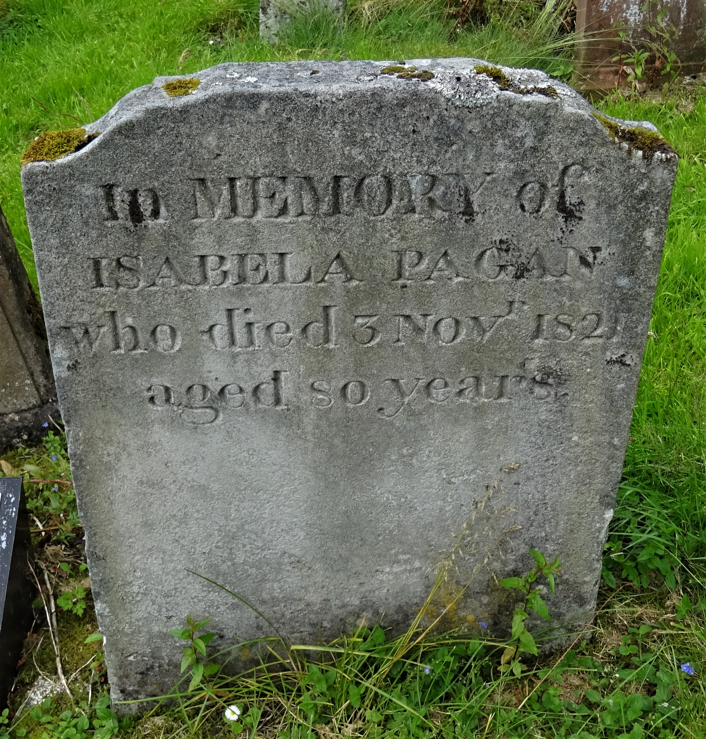 Isobel Pagan's gravestone, Muirkirk Churchyard, East Ayrshire. Poet & publican.